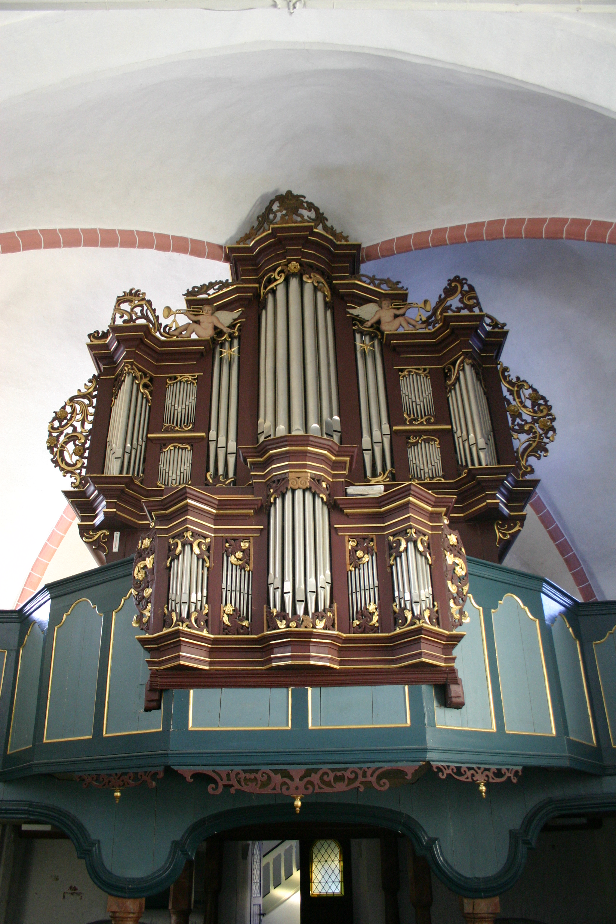 Organ of St. Martin's Church in Remels, East Frisia, Germany